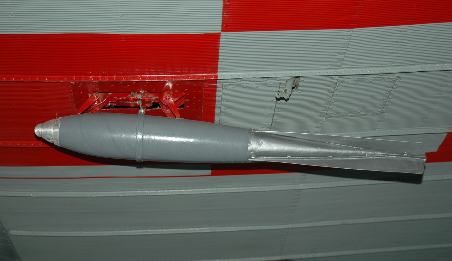 12.5-kg bomb hanged under the wing of PZL P.11c fighter (Polish Aviation Museum, Cracow)